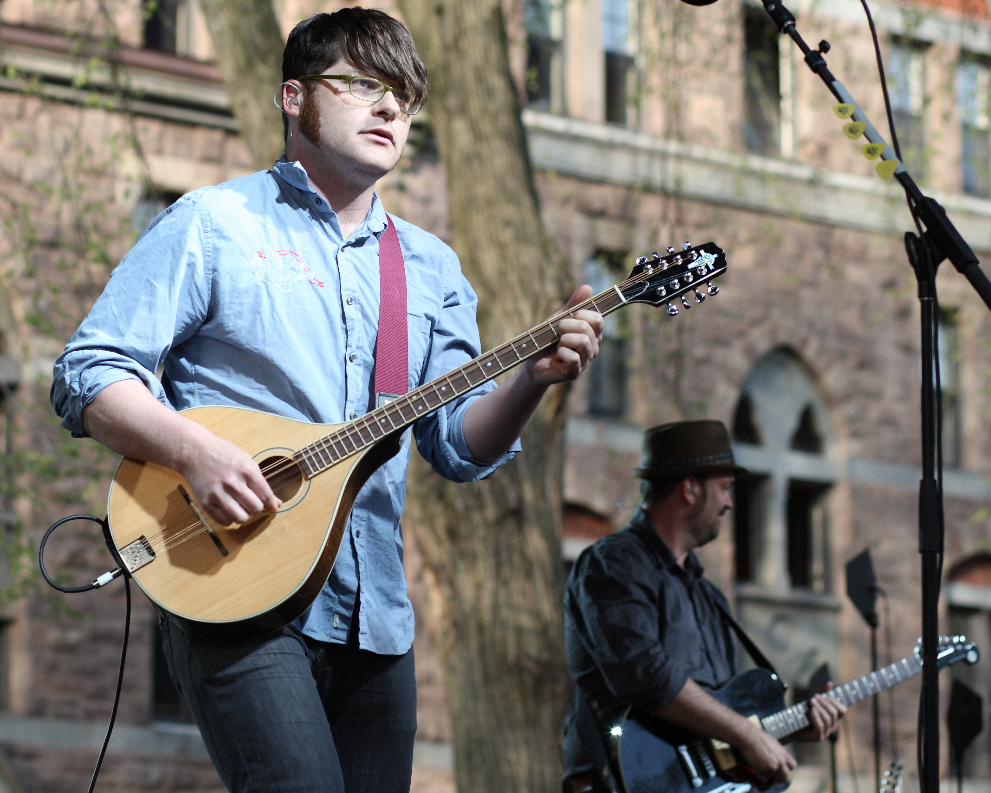 The Decmeberists performing at the Yale University "Spring Fling" on 28 April 2009, on Yale's Old Campus. Part of a larger set on Flickr: The Decemberists, 28 April 2009